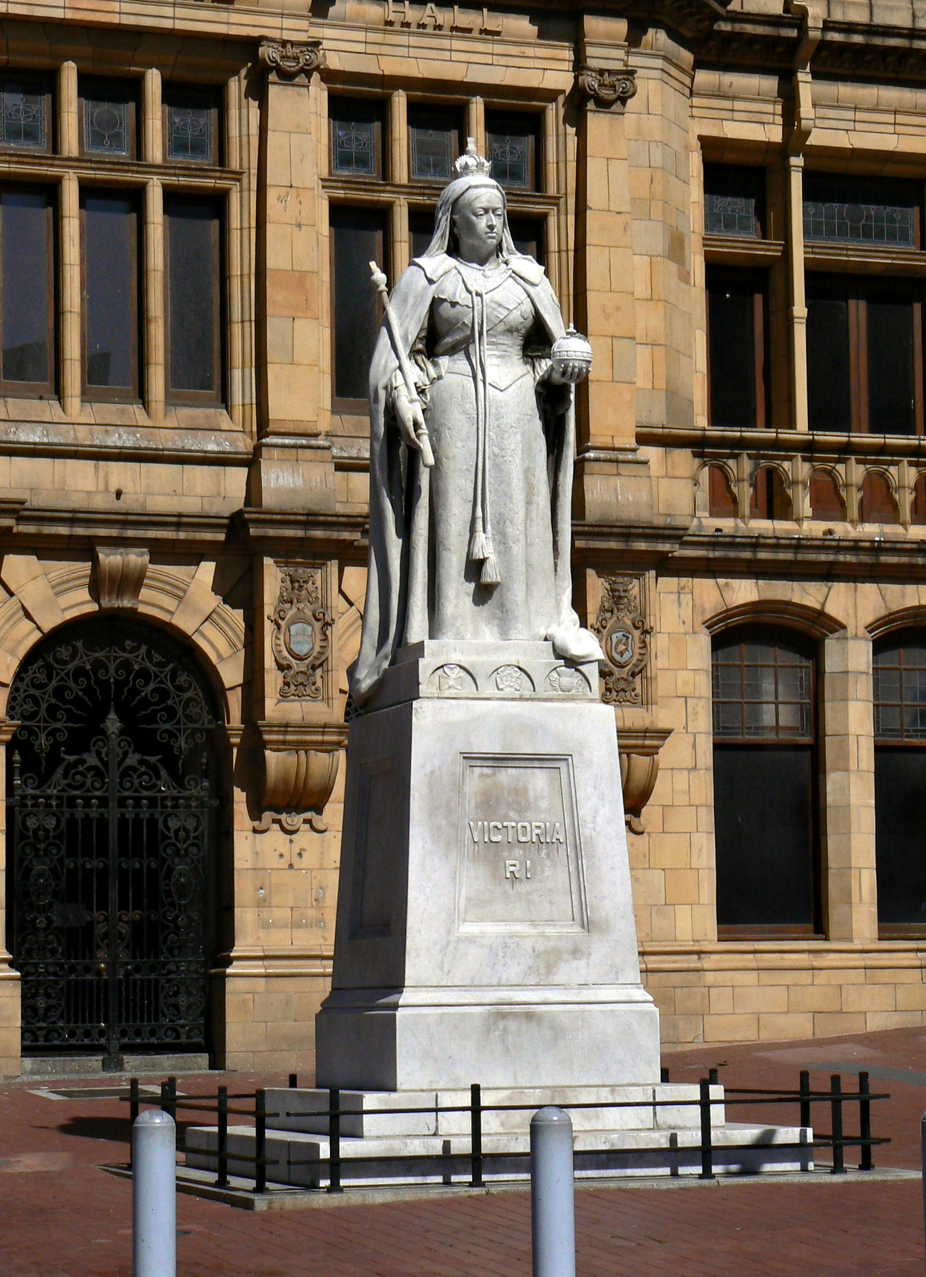 The Queen Victoria statue in front of the Main Library, Port Elizabeth, South Africa. This media shows a South African Protected Site with SAHRA file reference 9/2/073/0027.